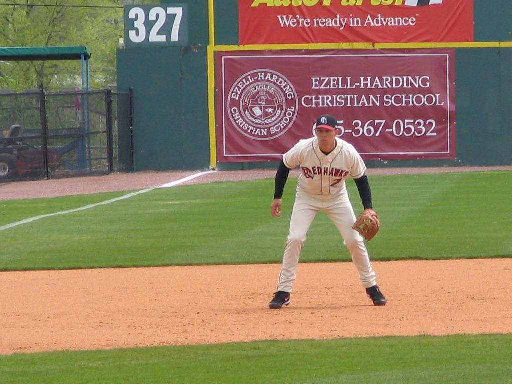 Cody Ransom playing for the Oklahoma RedHawks.